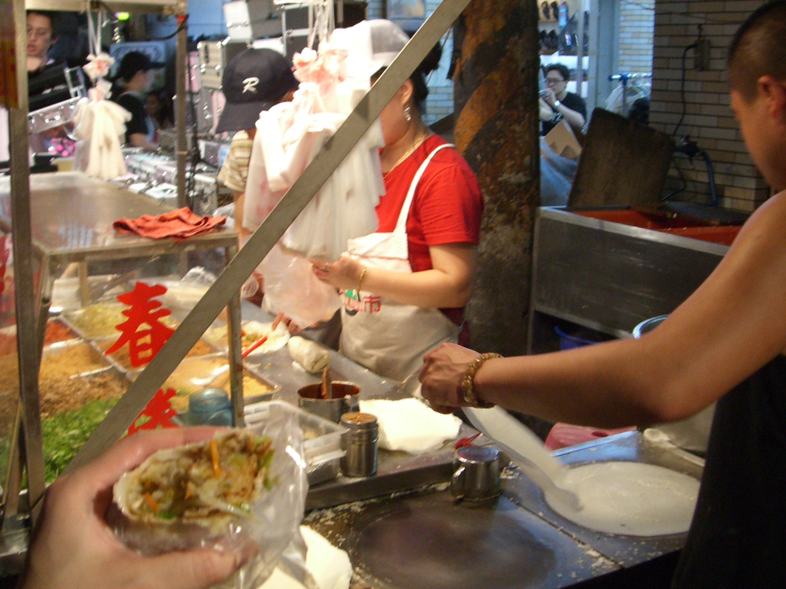 Spring rolls on a Taiwanese market